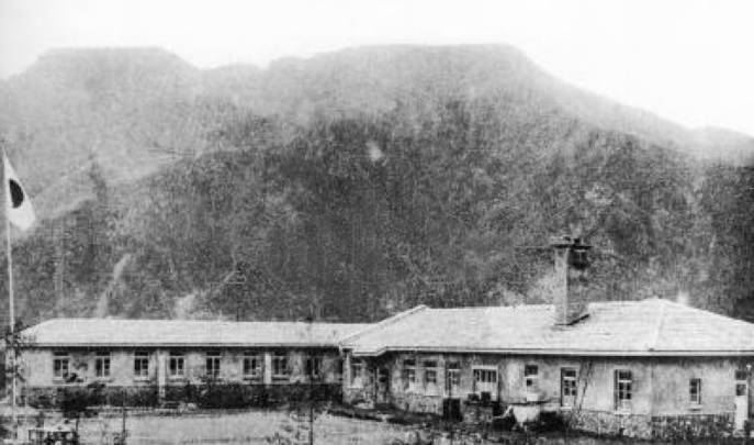 The Miners Training Center in Dalizigou, Linjiang County, Tonghua Province, Manchukuo.